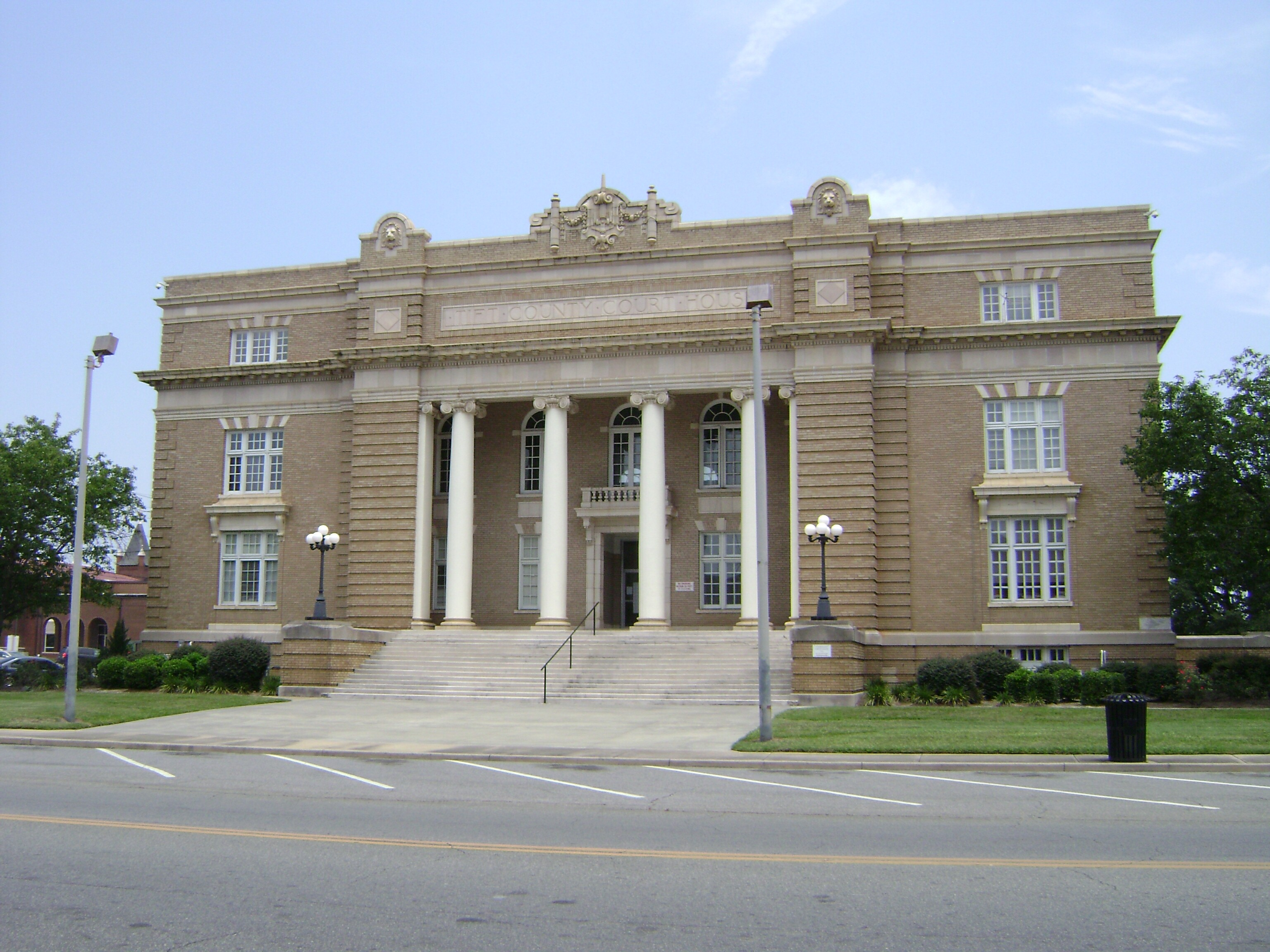 Tift County Courthouse in Tifton, Tift County, Georgia. The courthouse is located on 2nd Street East between Tift Avenue and Love Avenue.